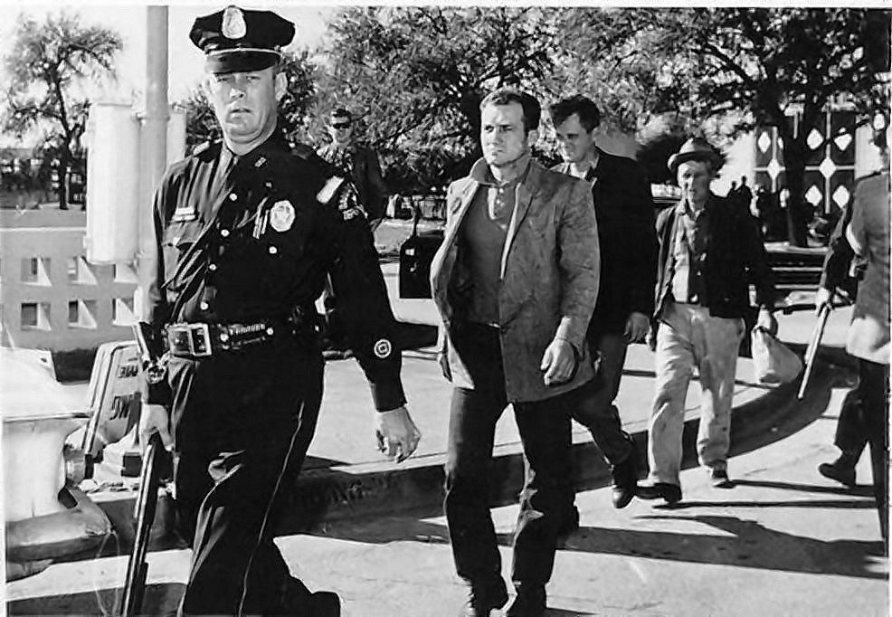 Picture of the so called "Three Tramps", men arrested in Dallas, Texas, taken few minutes after assassination of President Kennedy.